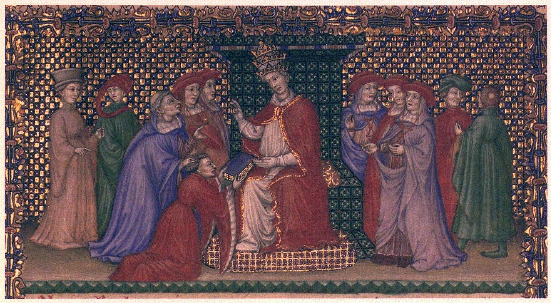 Book illumination in a manuscript of Pliny’s “Letters” showing the scene of the book’s presentation to Antipope Benedict XIII for whom it was written. Vatican City, Biblioteca Apostolica Vaticana, Vat. lat. 1777, fol. 1r.